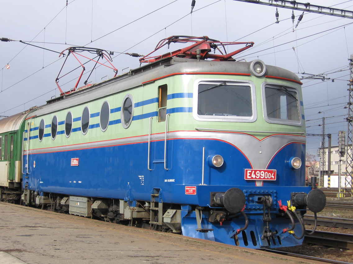 Locomotive E 499.004 in Olomouc